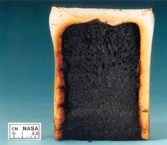 Smolder pattern in a polyurethane foam sample.